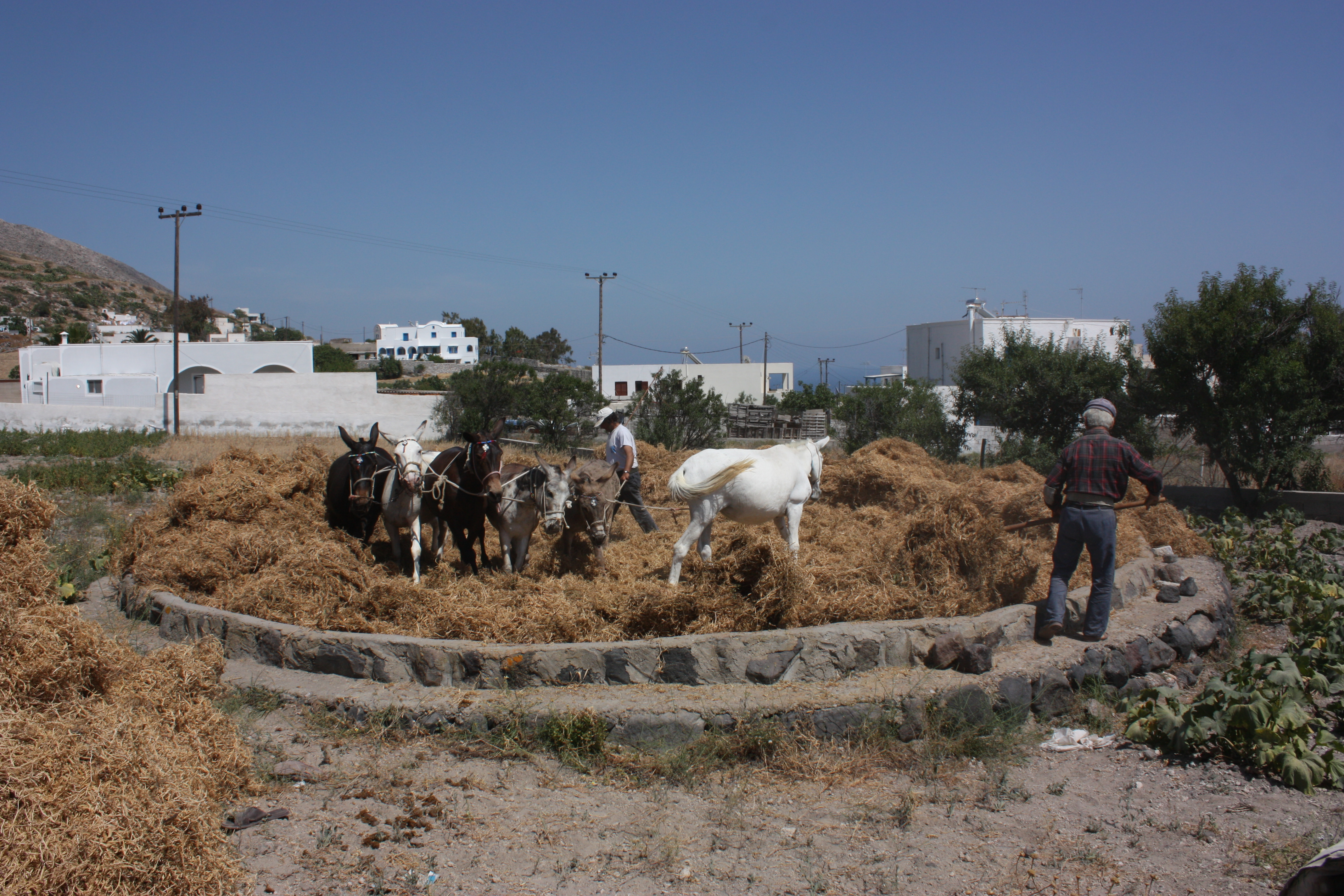 Threshing of Santorini's Fava... Village Emporio, Santorini... Threshing of Fava...